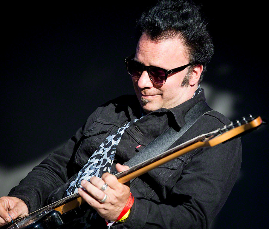 Mercury Rev performs at Quart Festival in Kristiansand on 28. June 2016. Lineup:Jonathan Donahue (guitar / vocal)Grasshopper (guitar)Carlos Anthony Molina (bass)Jason Miranda (drums)